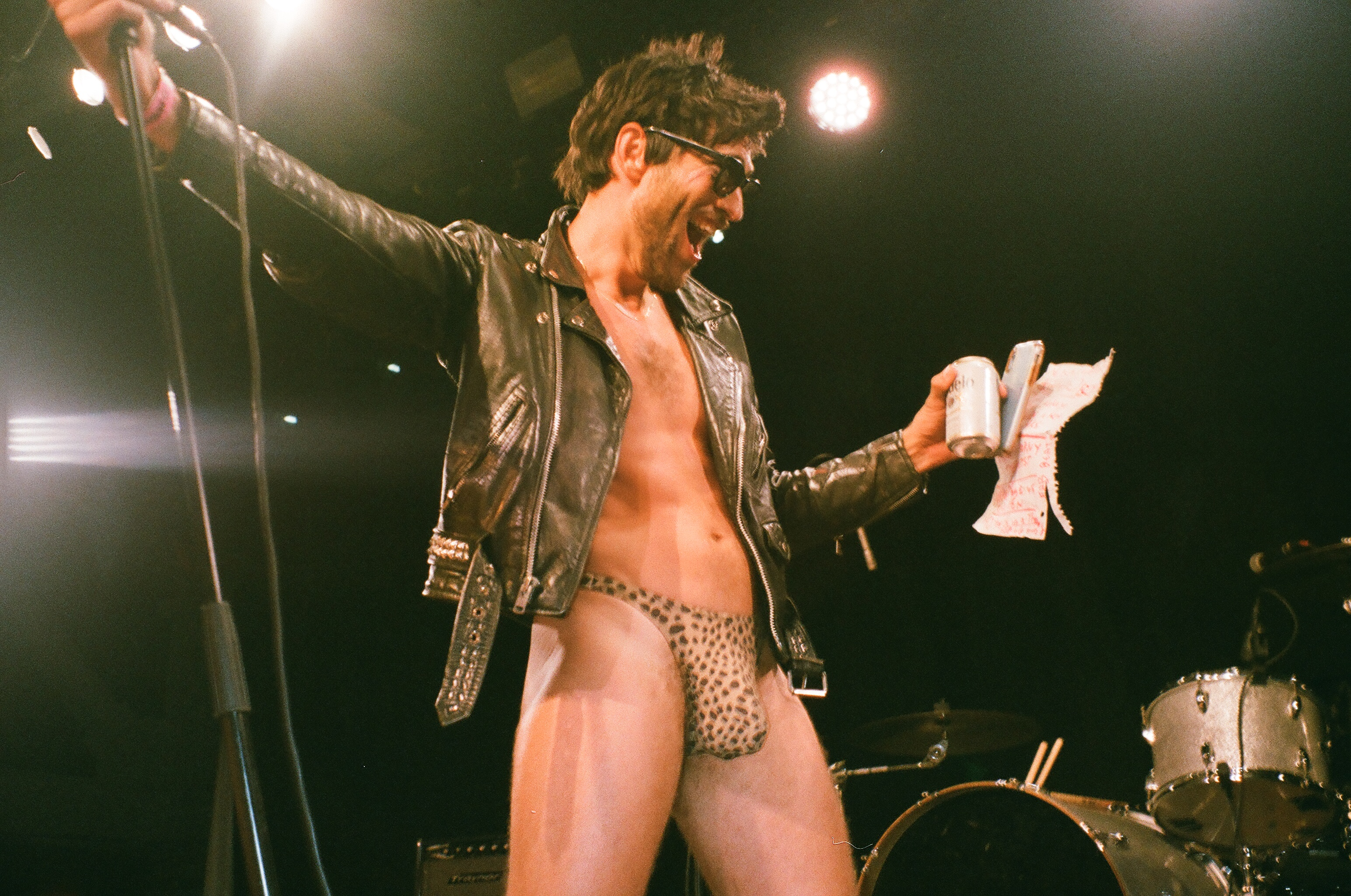 Bogart performing with Hunx and His Punx in at Elsewhere, Brooklyn (August 2019).